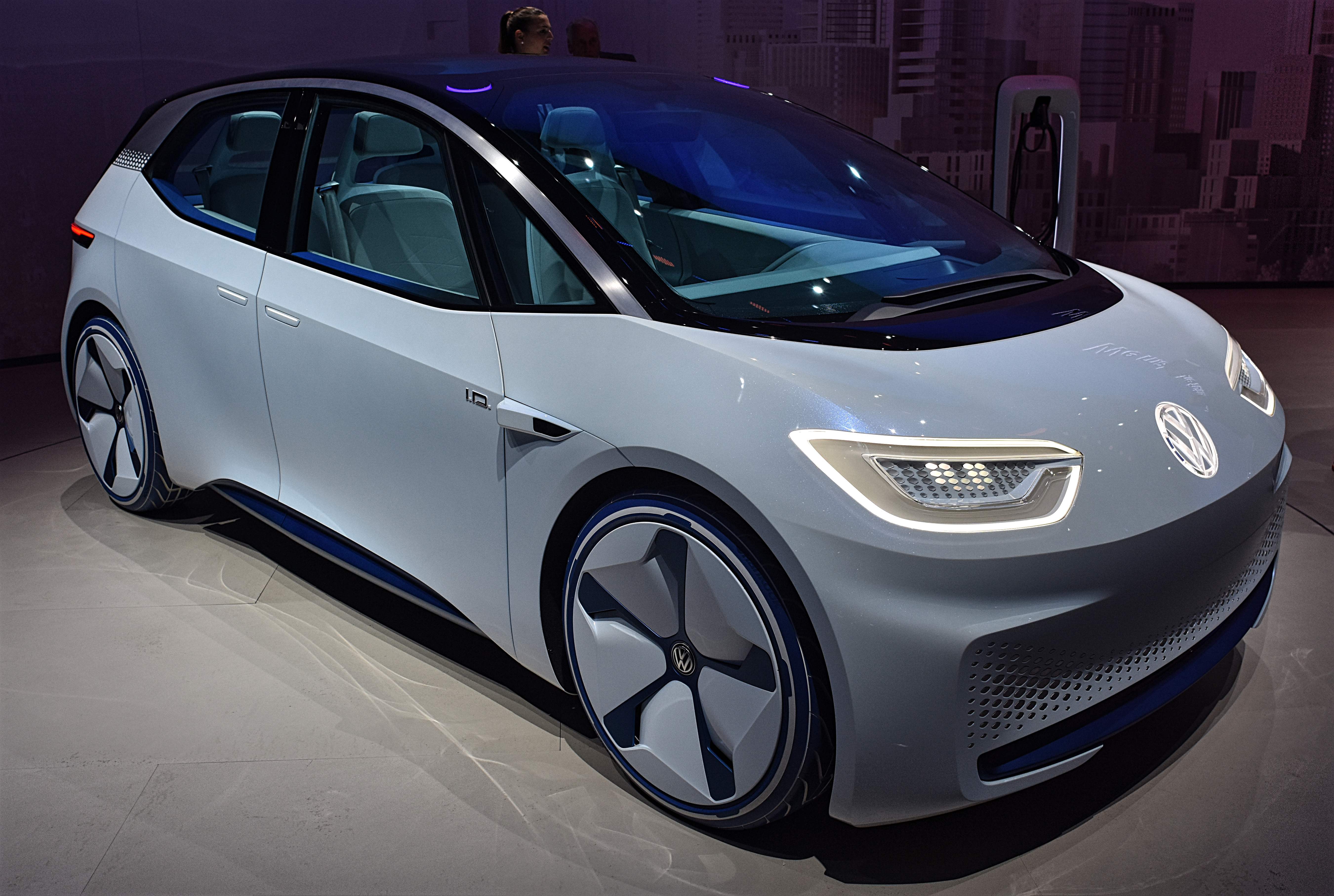 VW at IAA 2017